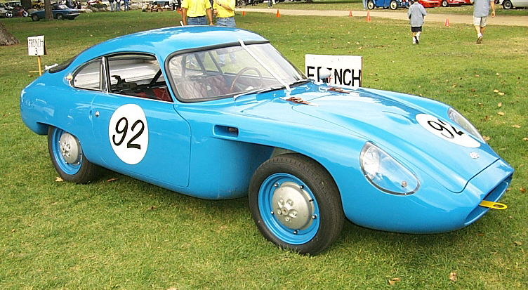 A Panhard-powered 1958 Deutsch-Bonnet coupé, chassis #1057. This car raced in the Sebring Twelve Hours in 1959